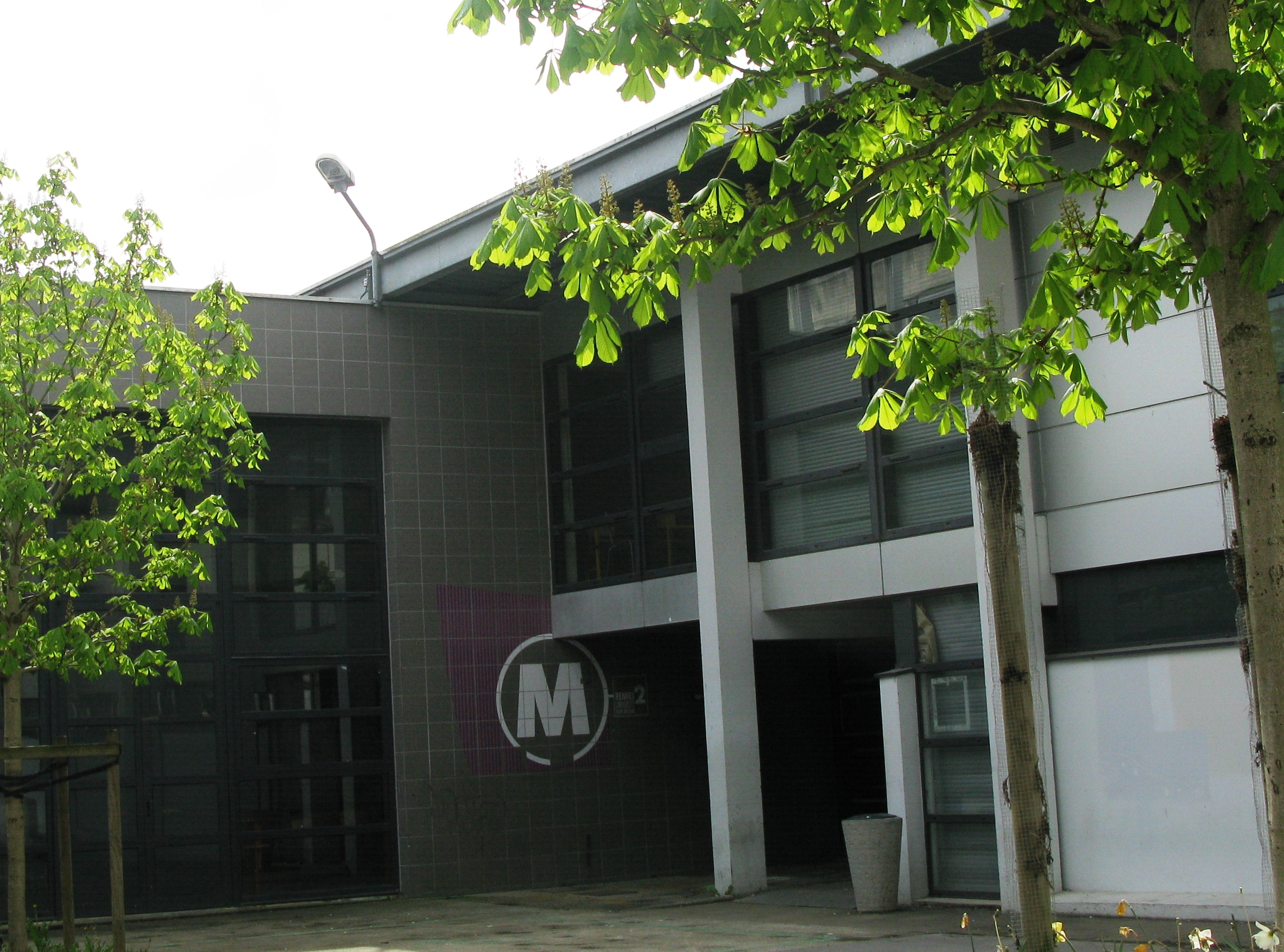 Building housing the Music departement of Rennes 2 University, Rennes, France.